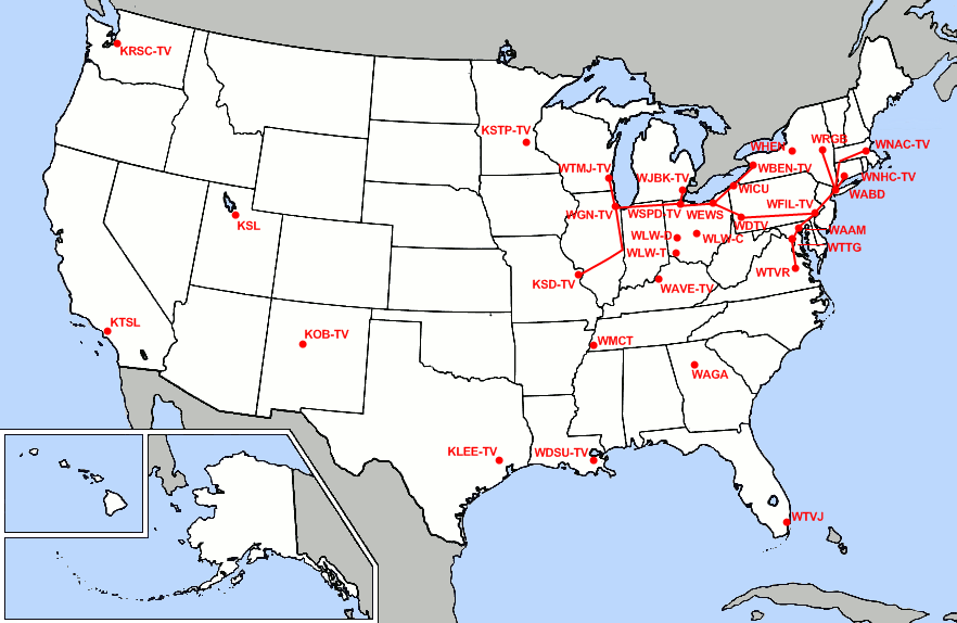 DuMont Television Network affiliates in 1949. DuMont's live network stretched from Boston to St. Louis. Cities further west or south received kinescope recordings of DuMont programs, until they were connected via microwave relay or coaxial cable.